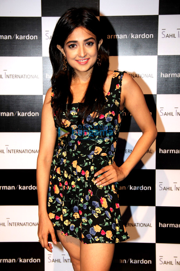 Thakur grace the launch party of luxury audio brand 'Harman Kardon'